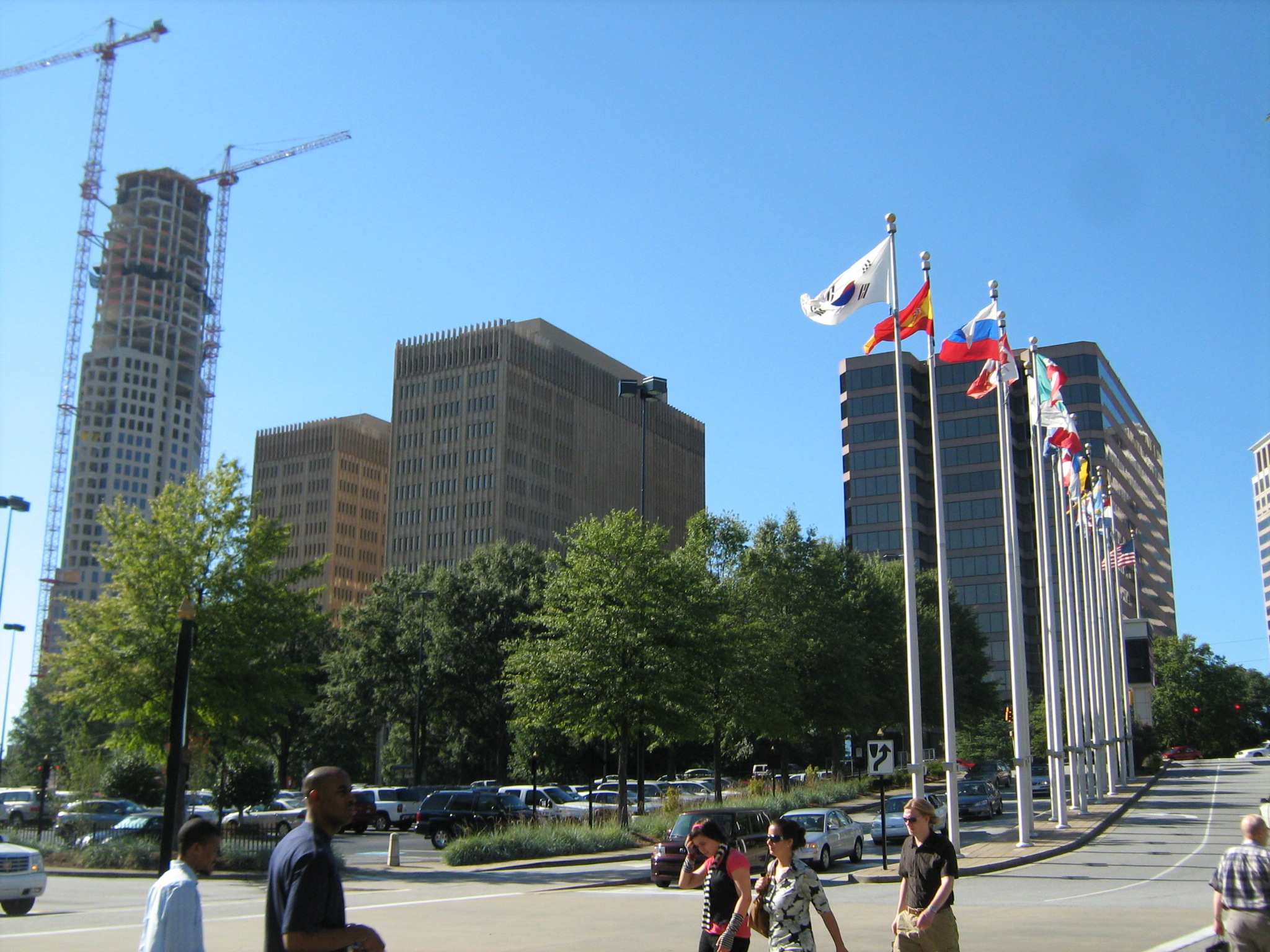 A portion of the Buckhead skyline in Atlanta, as seen from Lenox Square mall